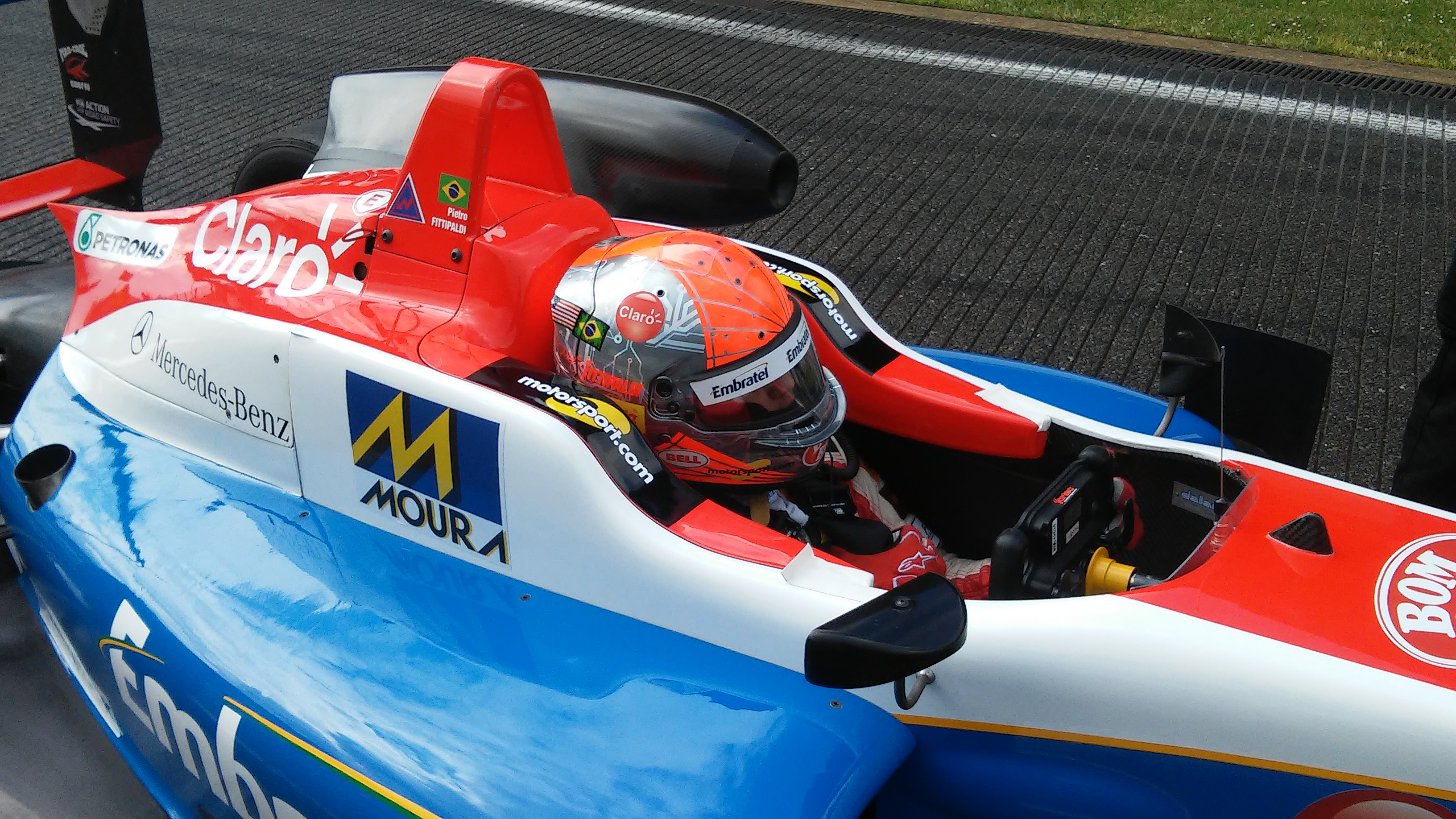 Pietro Fittipaldi on the F3 grid at Spa-Francorchamps 2015. Fittipaldi drove in a Dallara F312 entered by Fortec Motorsports.